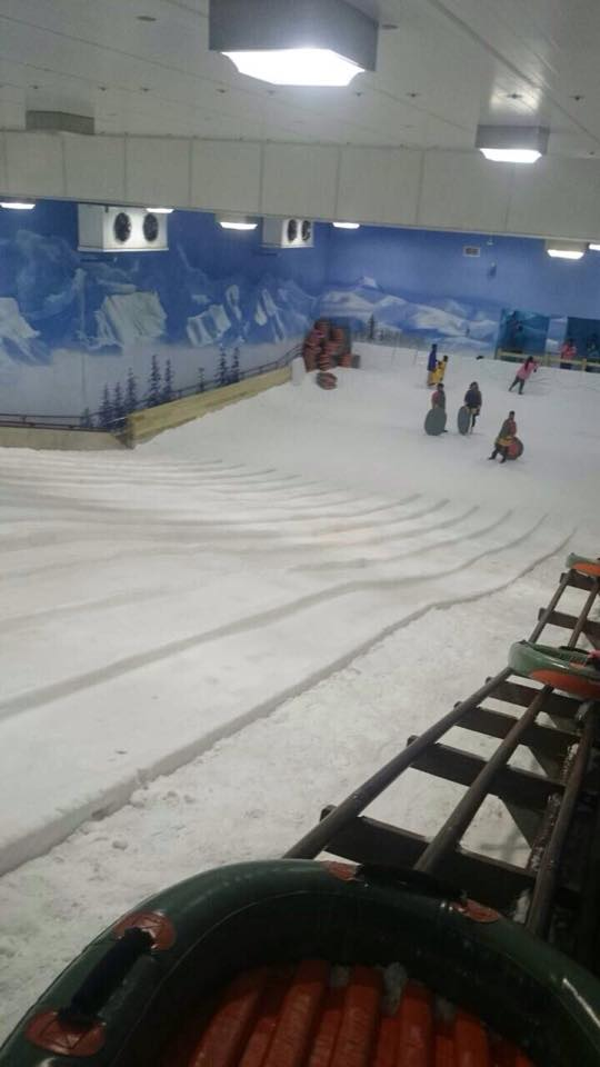 snow s